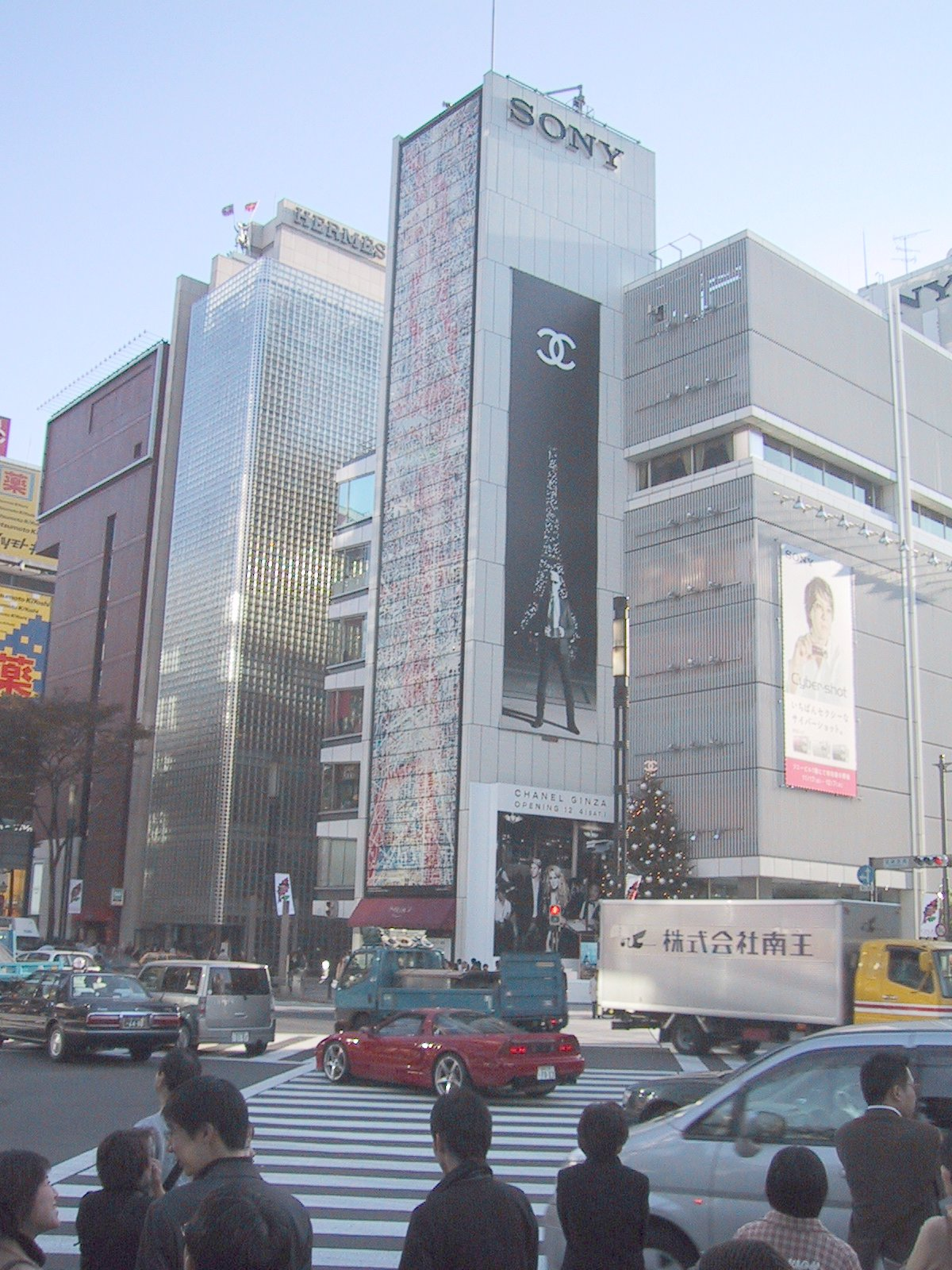 Sony building across the Ginza intersection in Tokyo